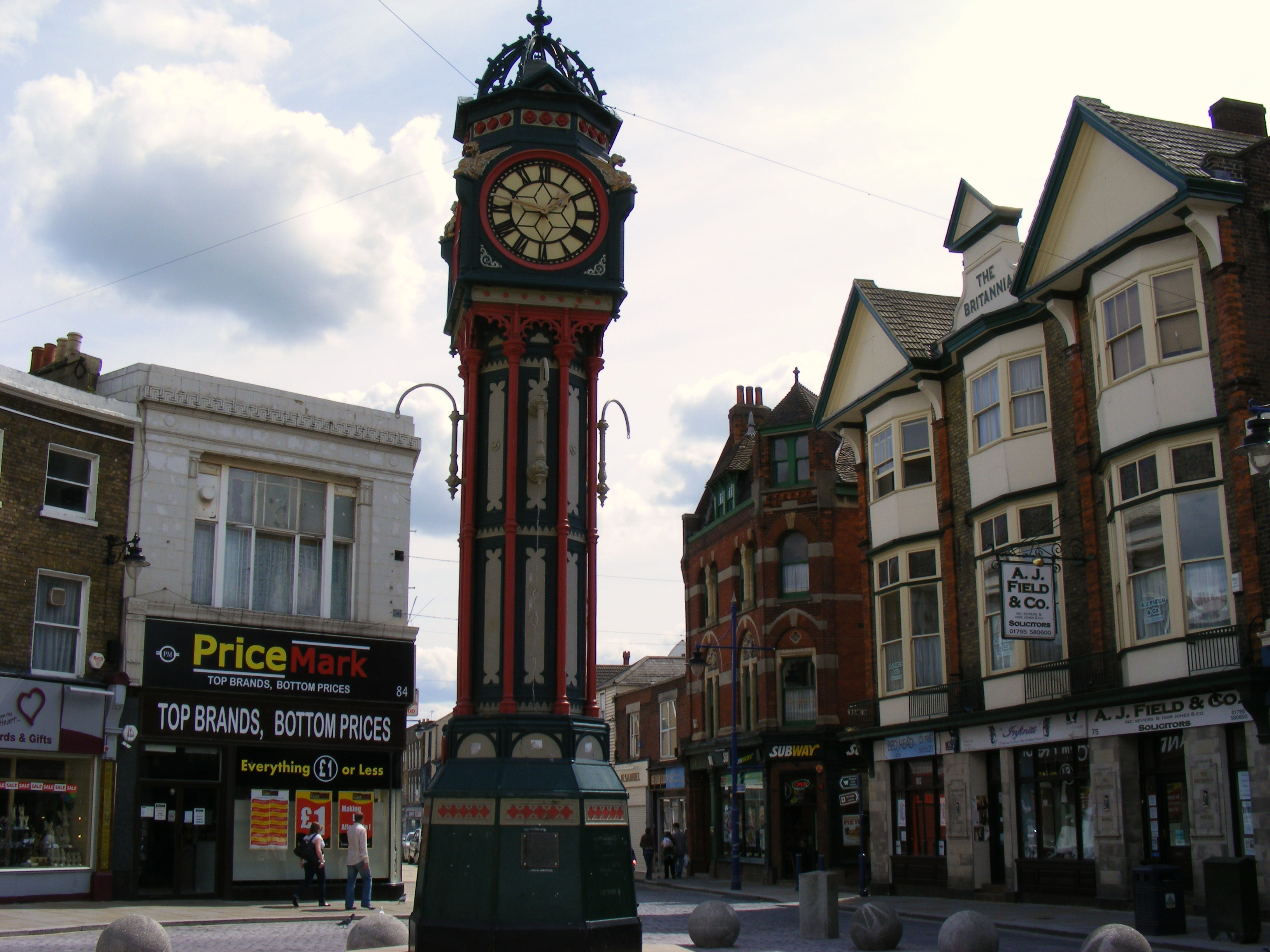 Town Clock High Street Sheerness The clock was built in 1902, it is made of cast iron and is the largest free-standing clock of its type in Kent at nearly 35 feet. It was restored in 2002 to celebrate the Queen's Golden Jubilee.